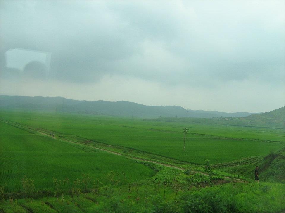 The North Korean countryside taken from the railway between Pyongyang and the Chinese border.